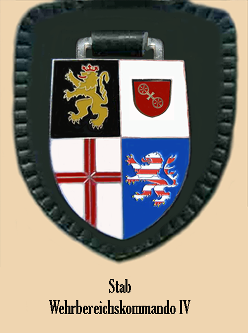 Internal coat of arms Stab Wehrbereichskommando IV (WBK IV) of the Bundeswehr (Armed Forces of the Federal Republic of Germany). → Remarks on naming and categorization scheme